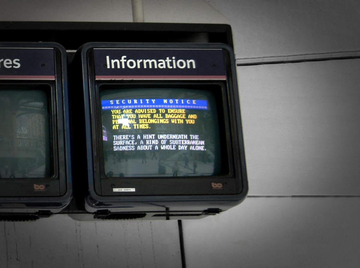 Text by public artist Martin Firrell presented on the public information system at London Liverpool Street Station. The standard security message is accompanied by an existential 'security message' about the burden of loneliness.